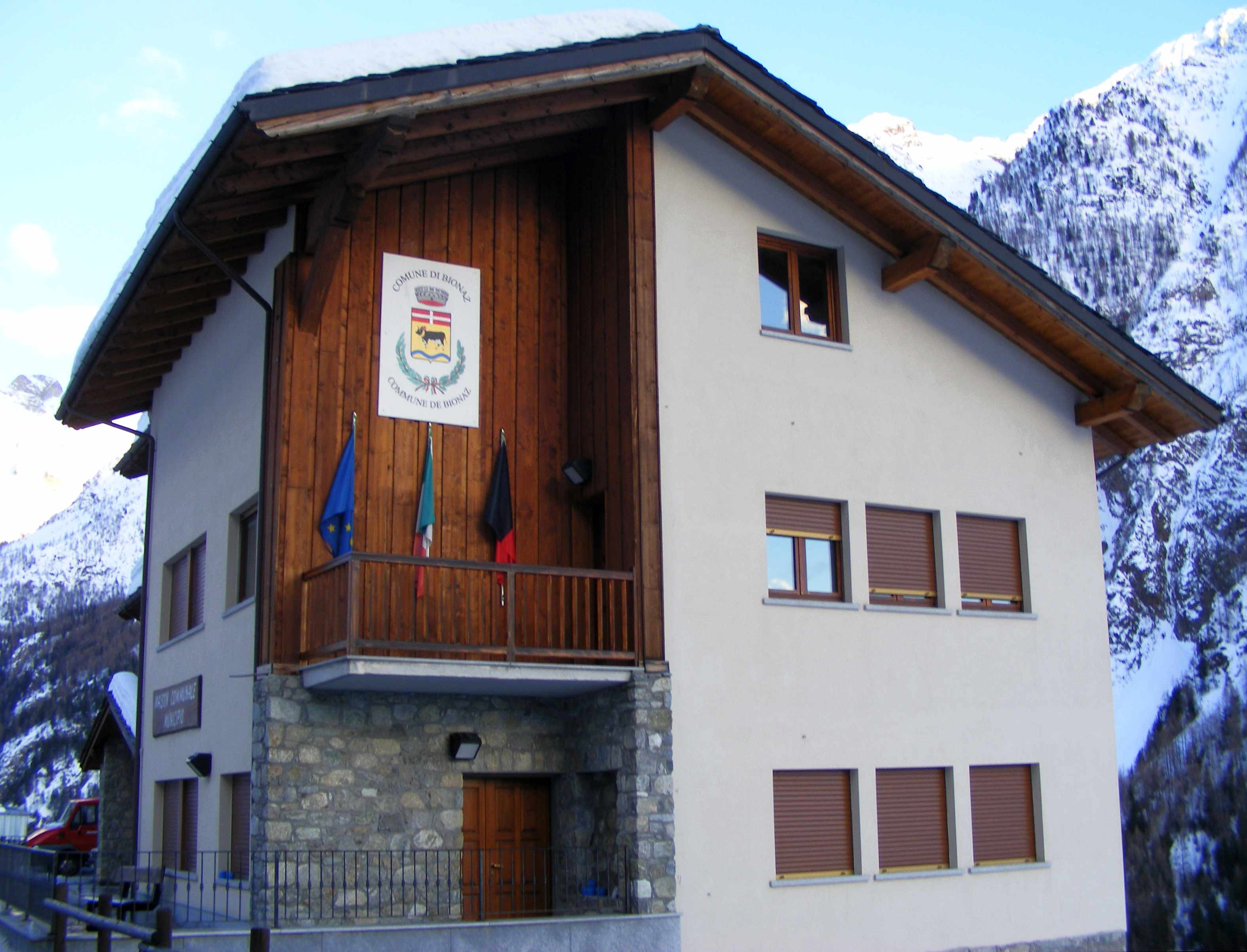 Bionaz (AO, Italy): town hall